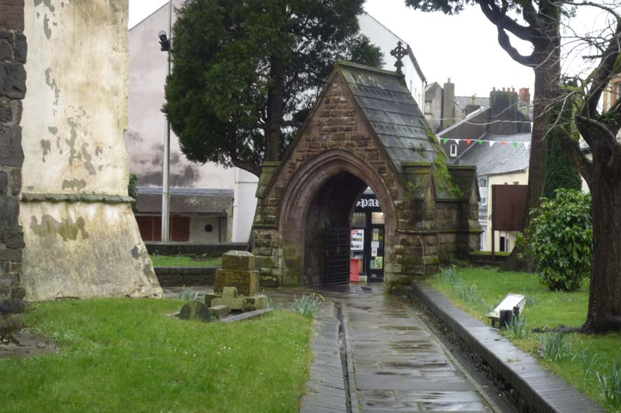 Grade II listed lychgate to the churchyard of St Peter's Church, Carmarthen. Designed by Francis E. Jones of London and built in 1879.